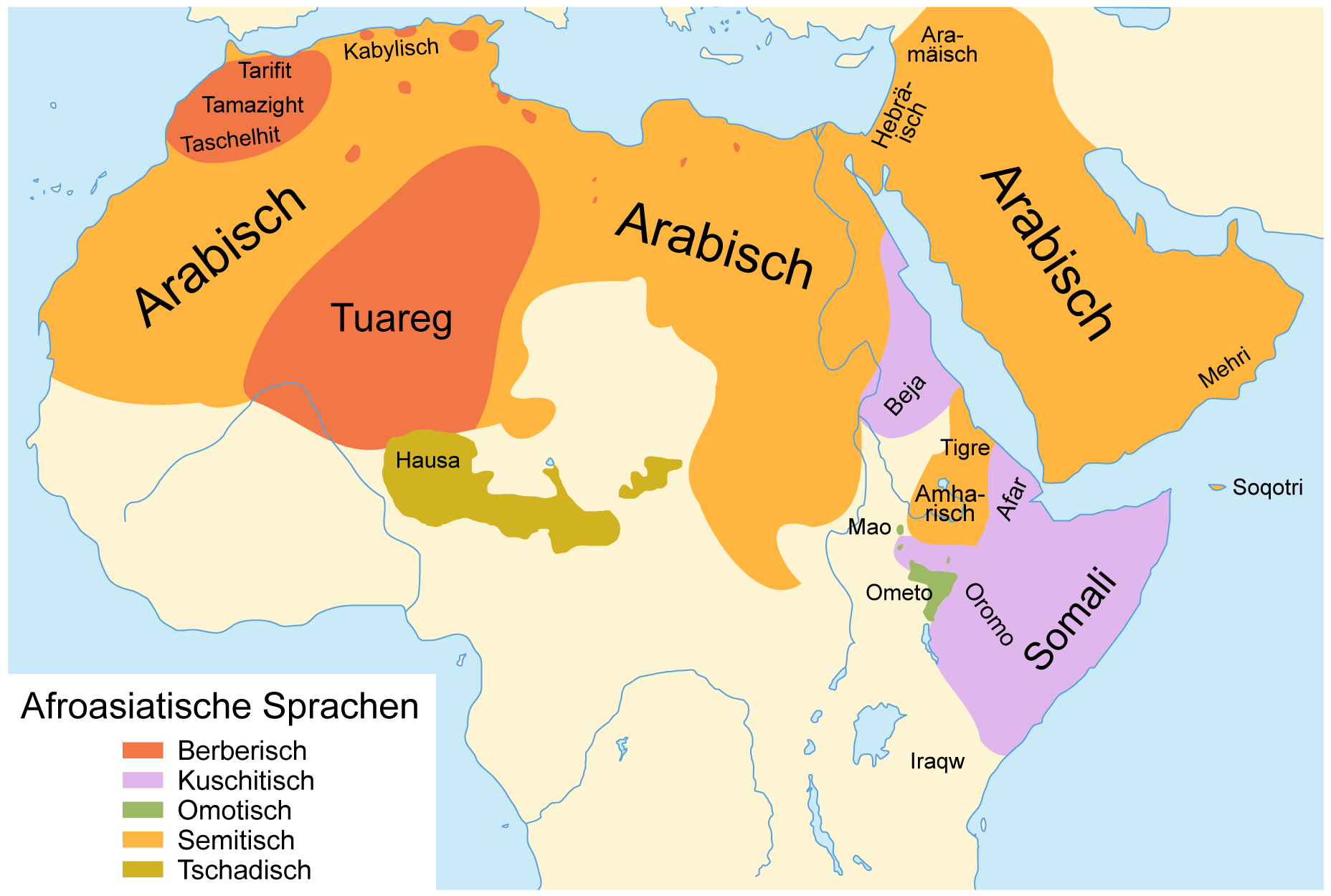 Map of the Afro-Asiatic Languages